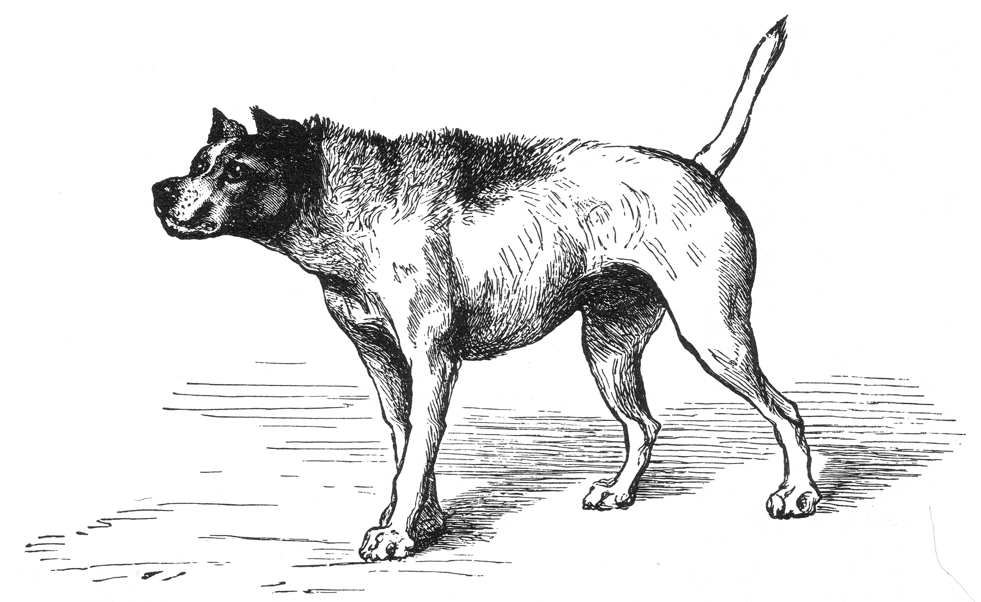 Figure 5 from Charles Darwin's The Expression of the Emotions in Man and Animals. Caption reads "FIG. 5.—Dog approaching another dog with hostile intentions. By Mr. Riviere." See also Image:Expression of the Emotions Figure 6.png, of the same dog.